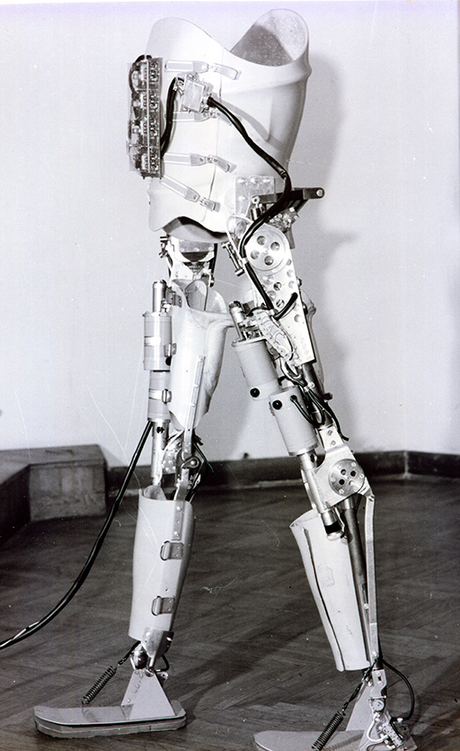 Active Exoskeleton made in 1974. at "Mihajlo Pupin" Institute in Belgrade